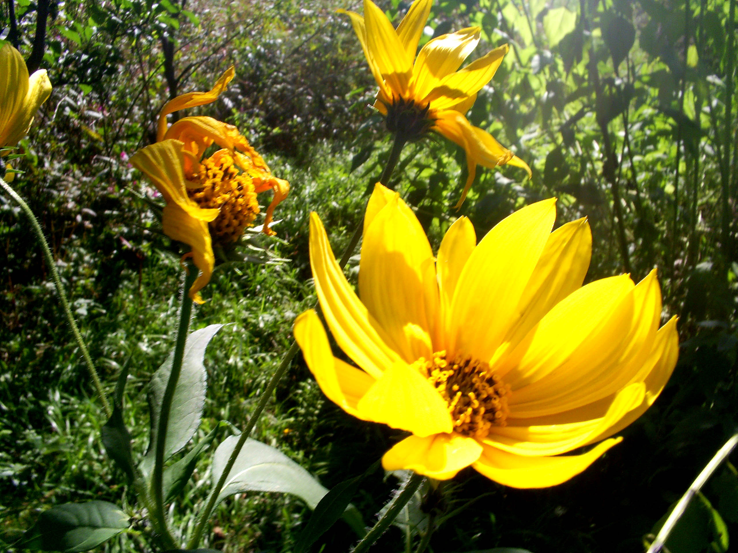 Jerusalem artichoke flower